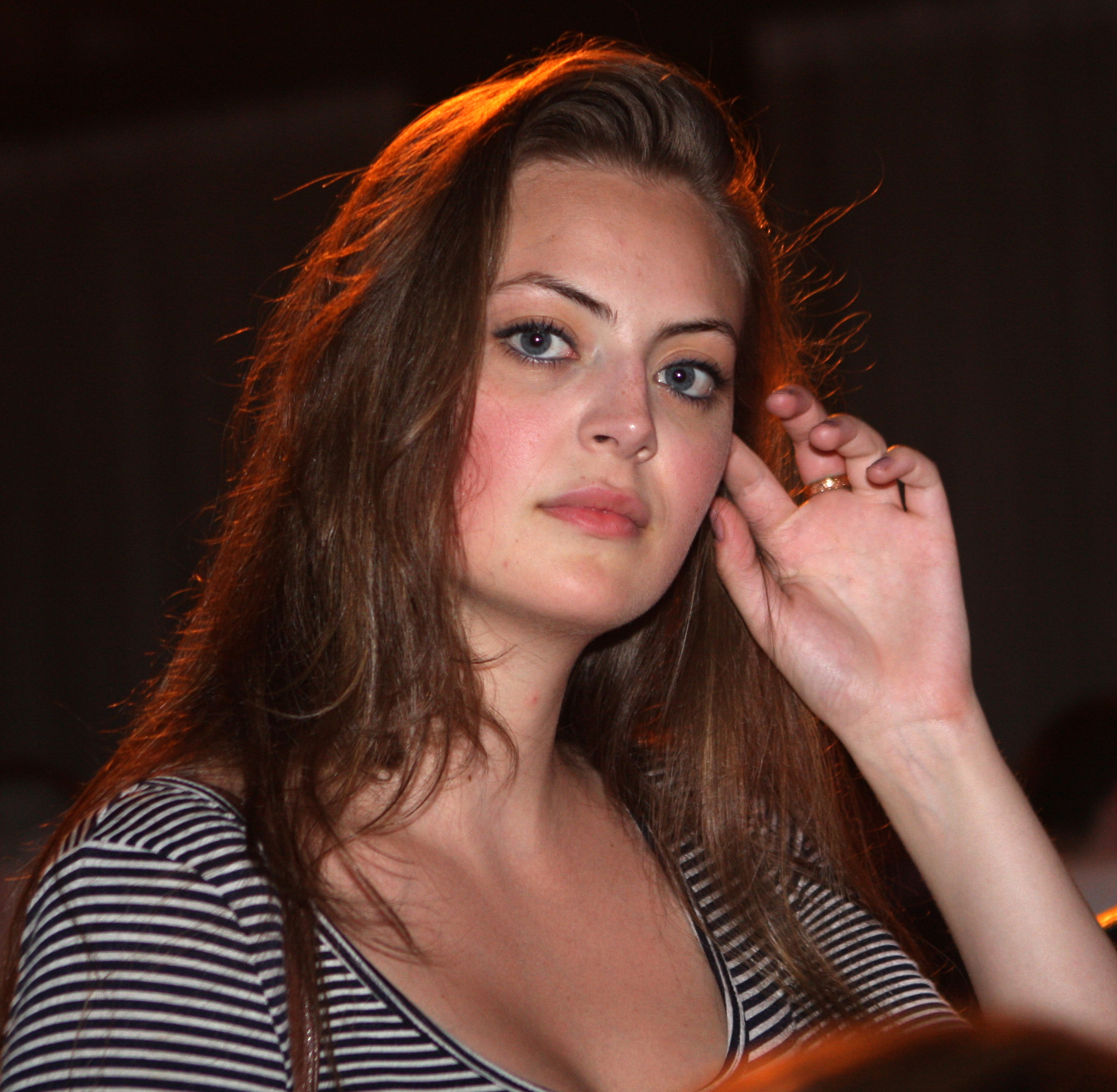 Demelza Reveley at the Nintendo 3DS launch in Sydney, Australia in February 2011.